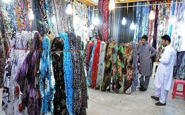 Bazaar of Zahedan - 18 March 2013. main album